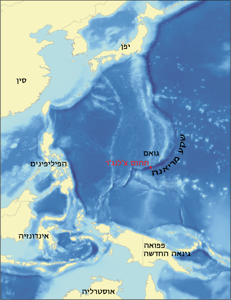 Based on File:Marianatrenchmap.png in Hebrew